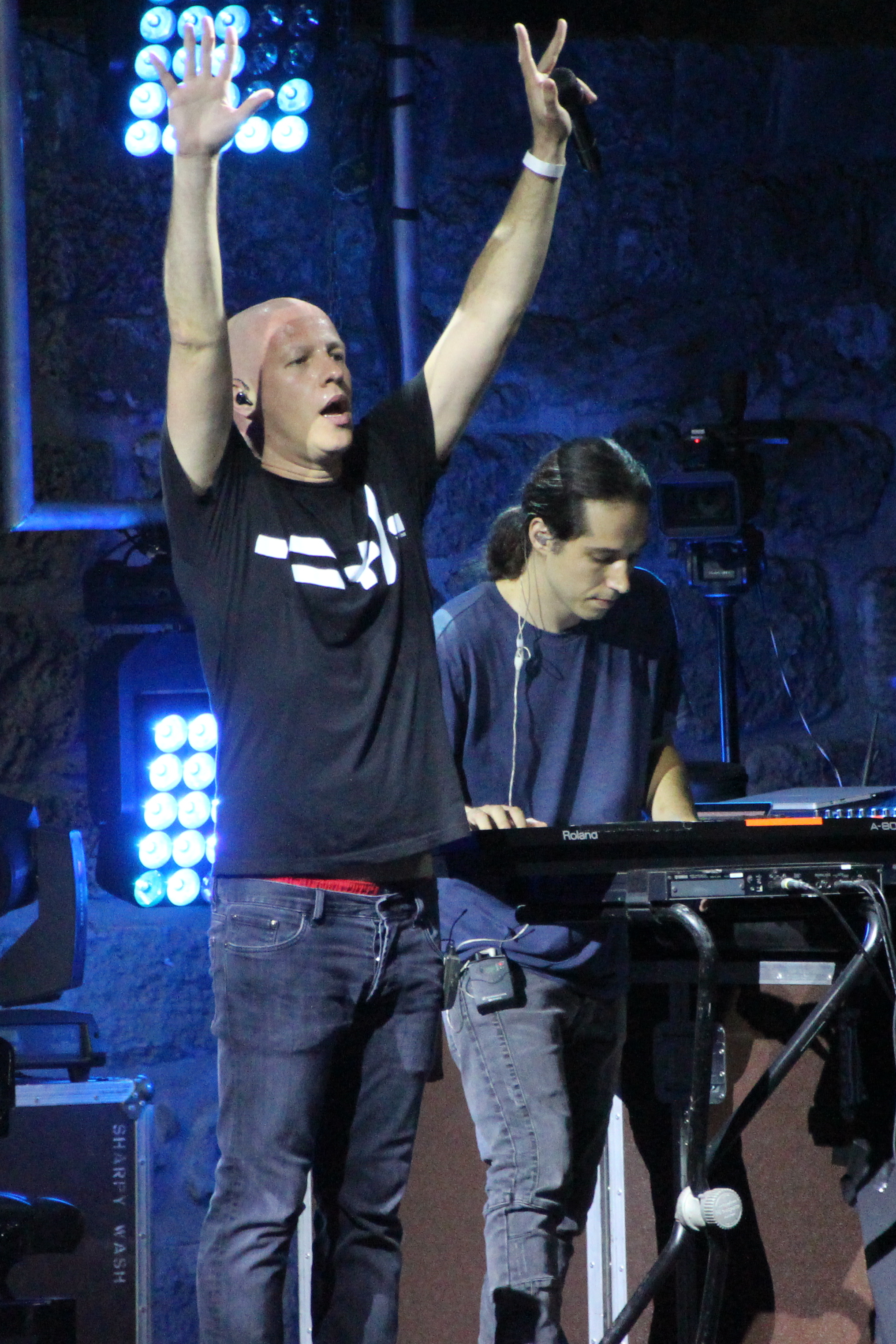 Infected Mushroom during their show in Amphi Shuni, September 2015.